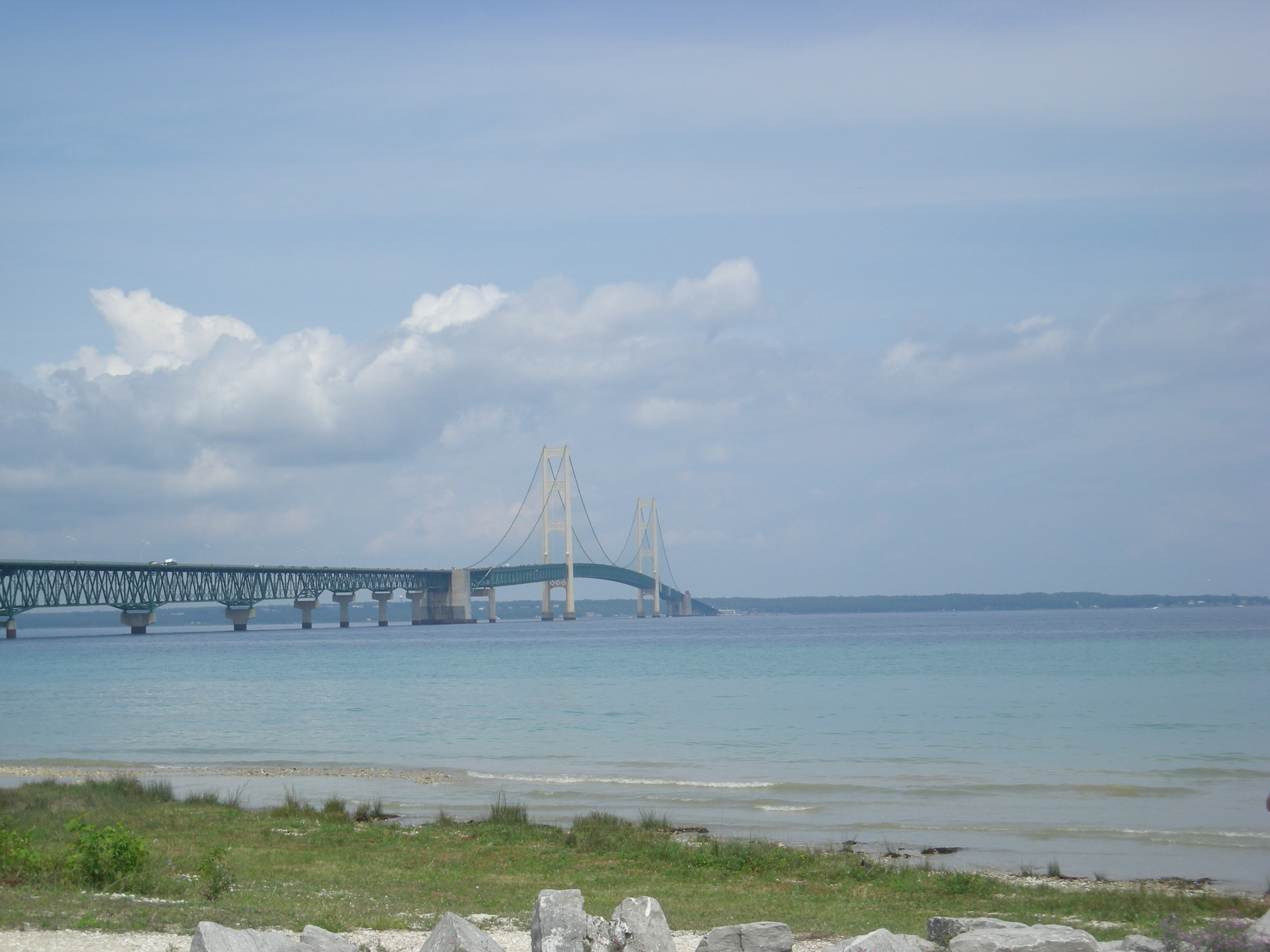 A view of the Mackinac Bridge and the Straits of Mackinac as seen from Mackinaw City, Michigan (United States).